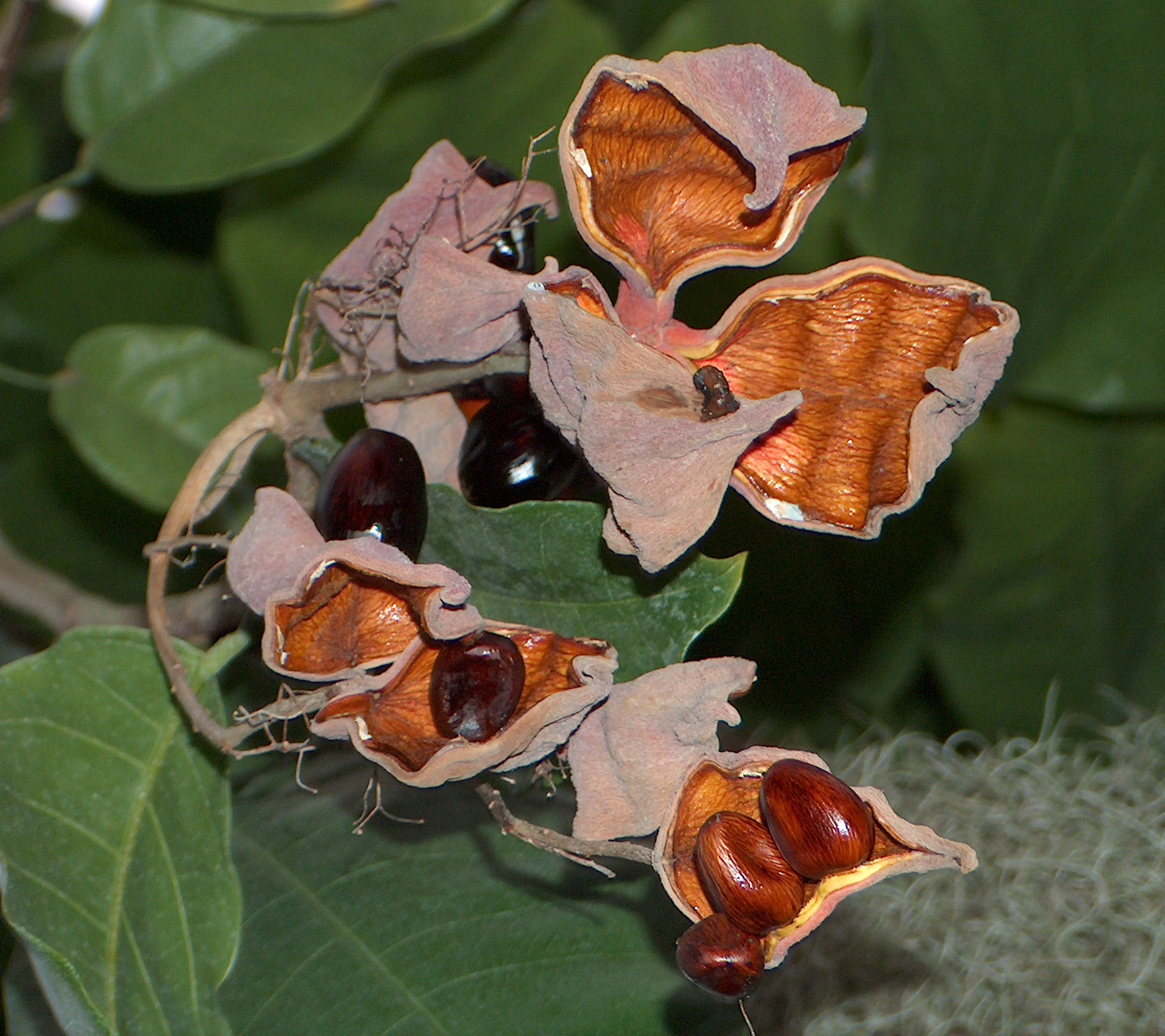 Fruits of Sterculia balanghas L.